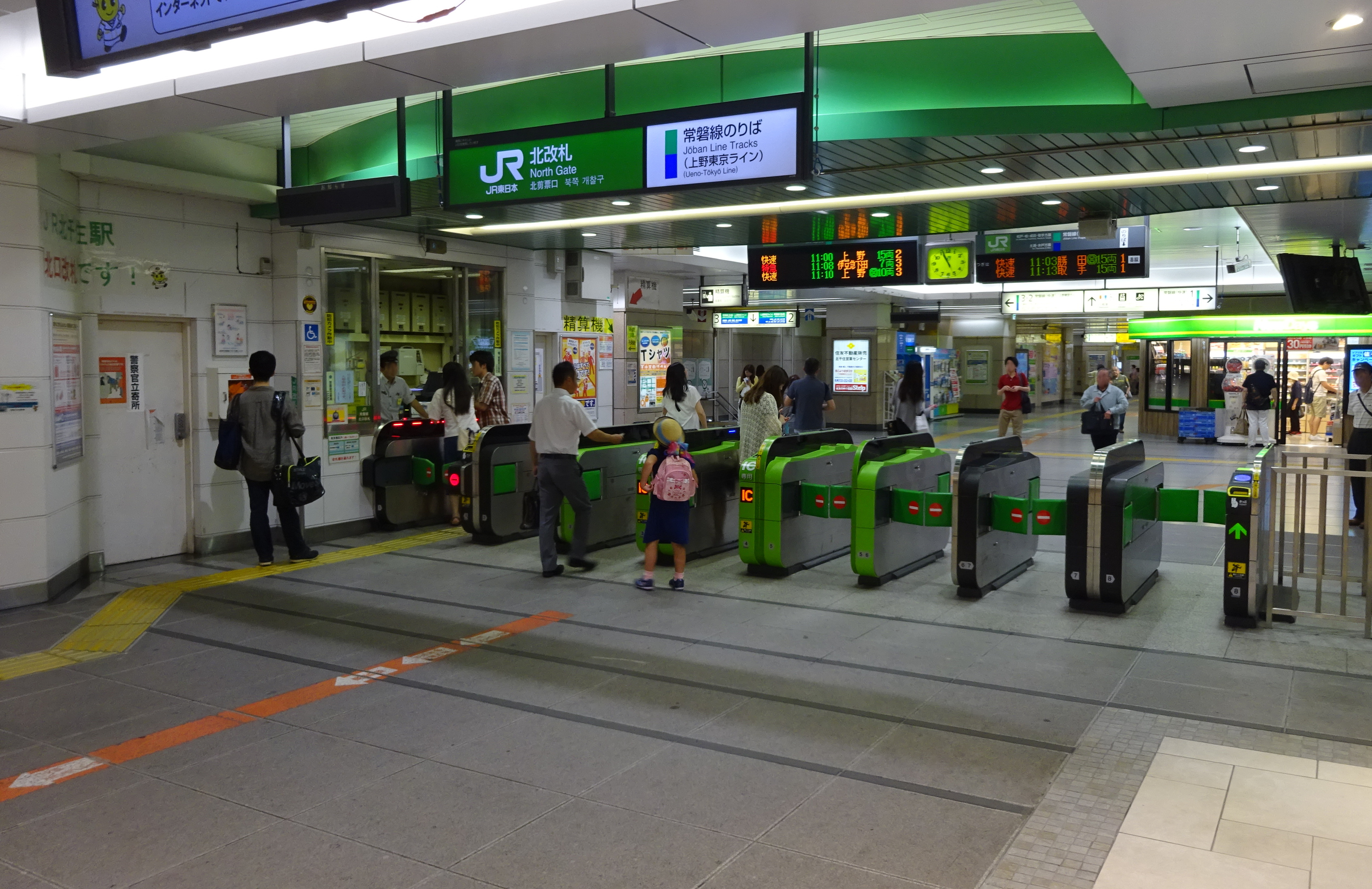 Ticket barriers of Kita-Senju Station(North gate, JR)